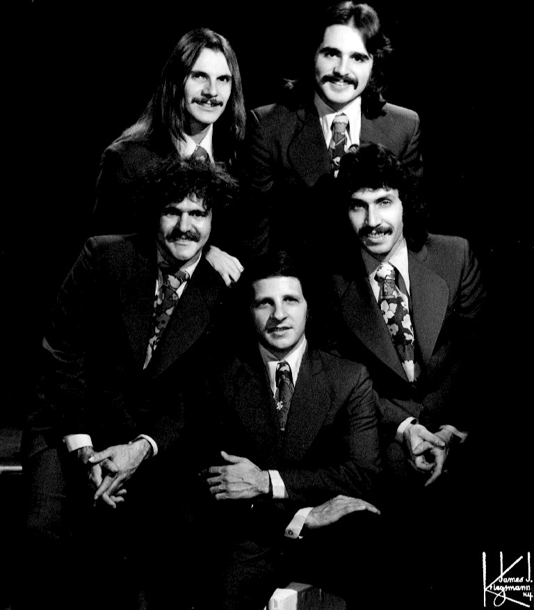 Photo of the music group Johnny Maestro & The Brooklyn Bridge'